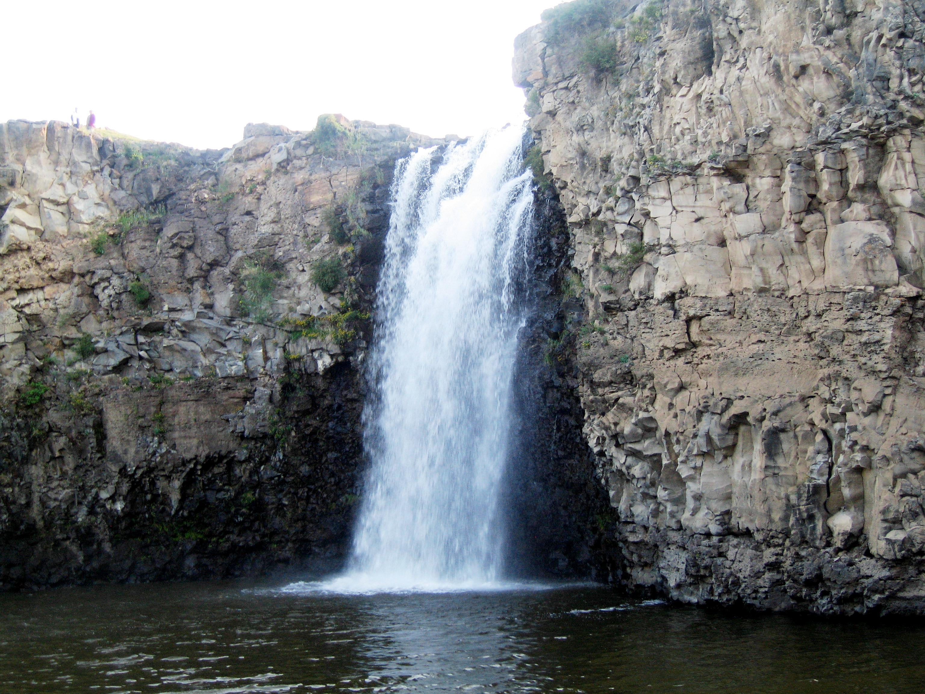 The Ulaan Tsutgalan waterfall, on a tributary of the Orkhon River, Mongolia.